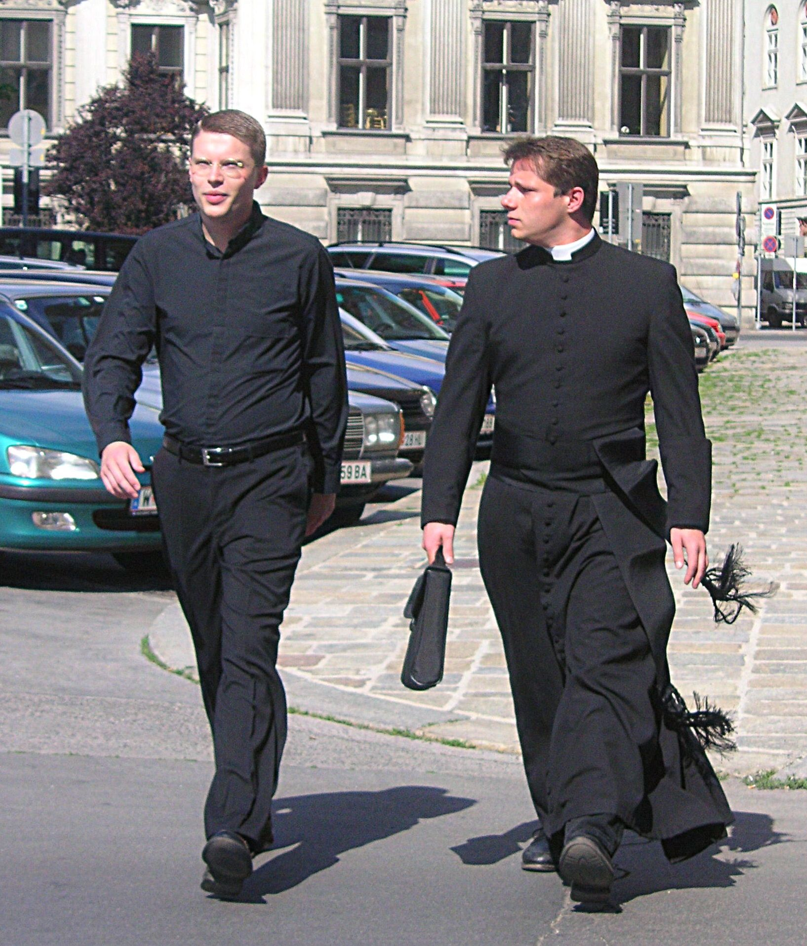 And example of two priests wearing clerical clothing while walking the streets of Vienna, Austria.